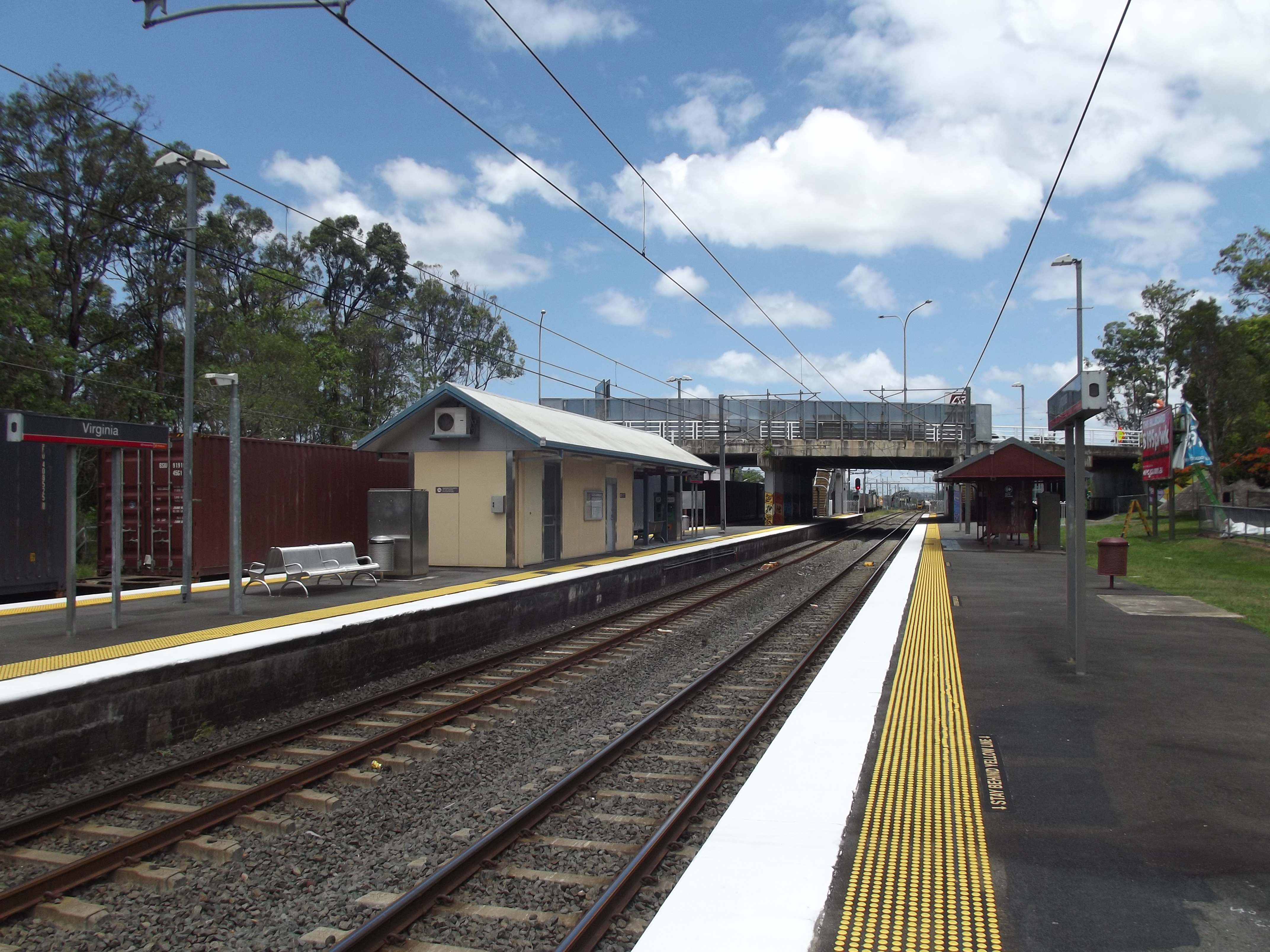 Virginia station, on the Caboolture line.